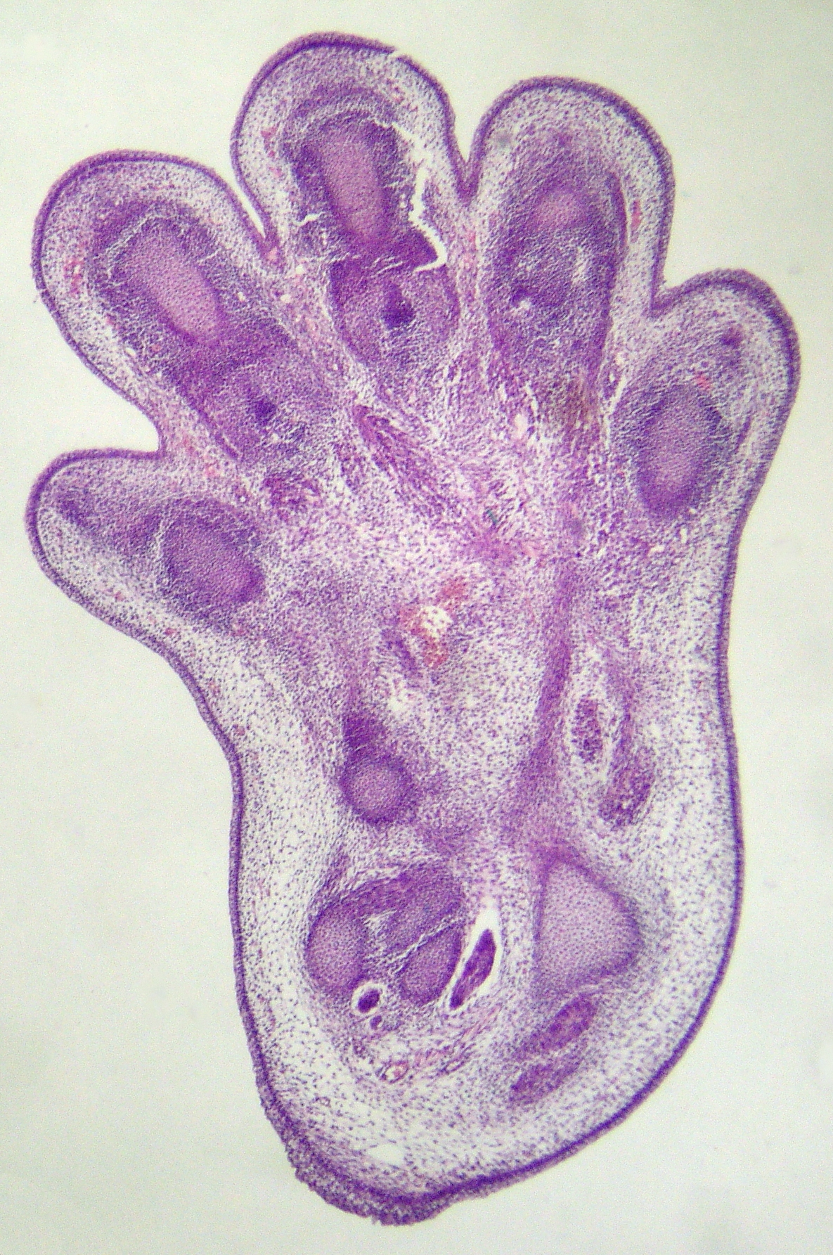 histologic cross section of embryonic foot of mouse (Mus musculus) in 15.5 day of its development. (Whole delvelopment of mouse lasts 27 days.) I do not know neither if it is left or right foot nor if it is front leg or back leg.)